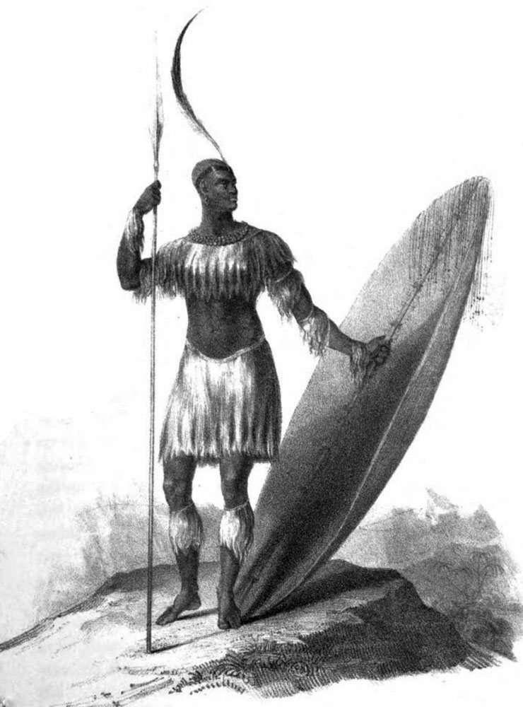 Sketch of King Shaka (1781 - 1828) from 1824. Attributed to James King, it appeared in Nathanial Isaacs’ "Travels and Adventures in Eastern Africa", published in 1836.